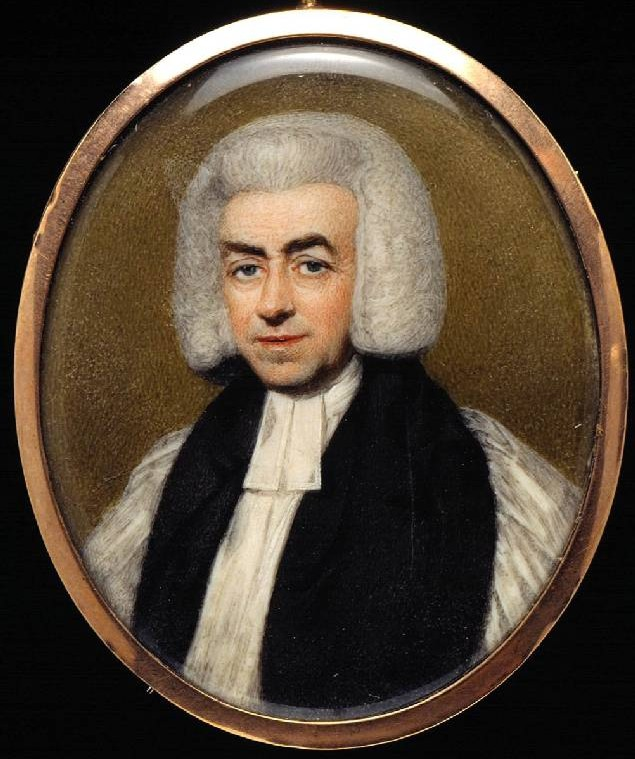 Portrait of Samuel Hallifax, LL.D., D.D., Bishop of Gloucester 1733-90